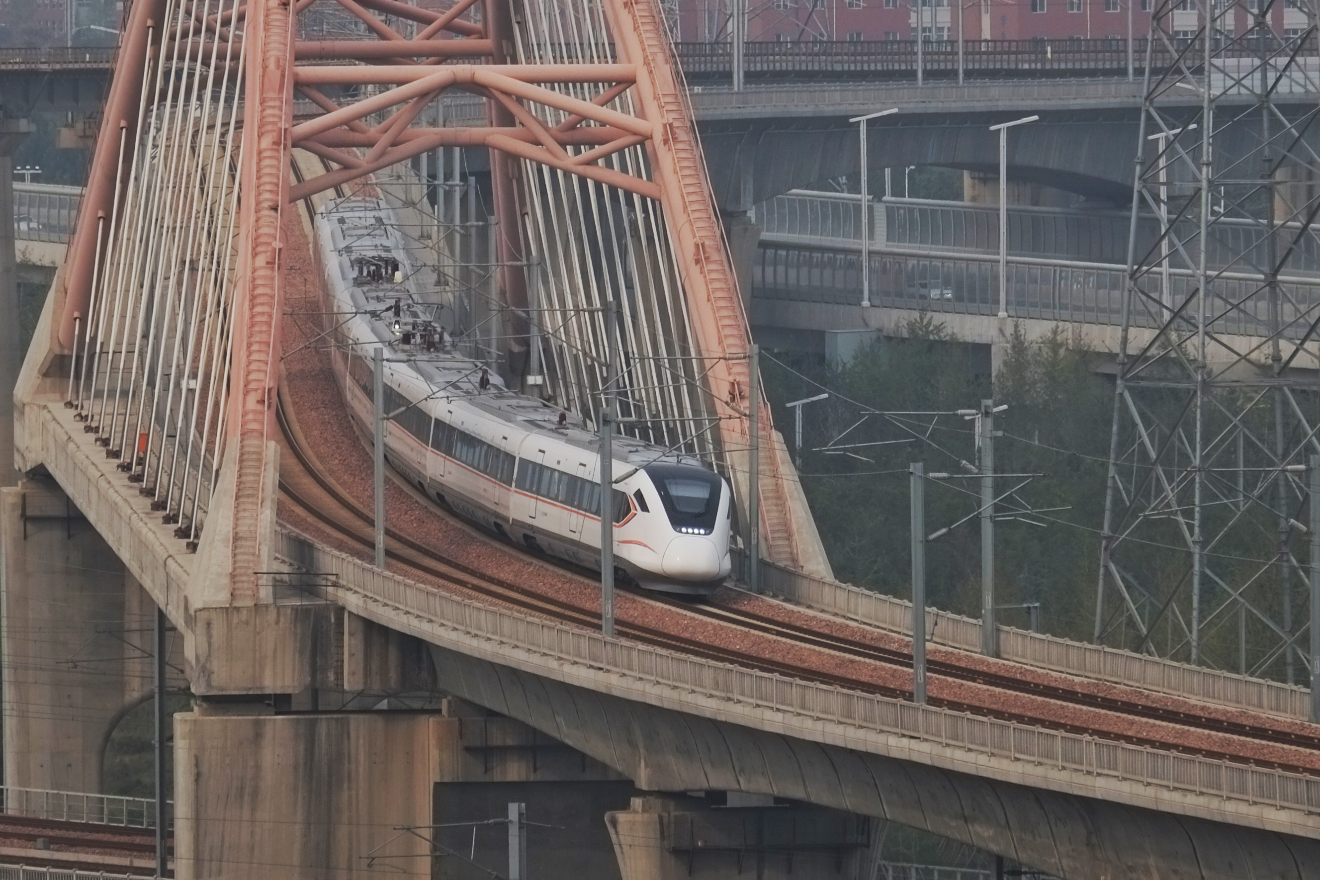 A CRH6A EMU (CRH6A-0425) on Zhengzhou-Kaifeng (Zhengkai) Intercity Railway near Zhengzhou East Railway Station